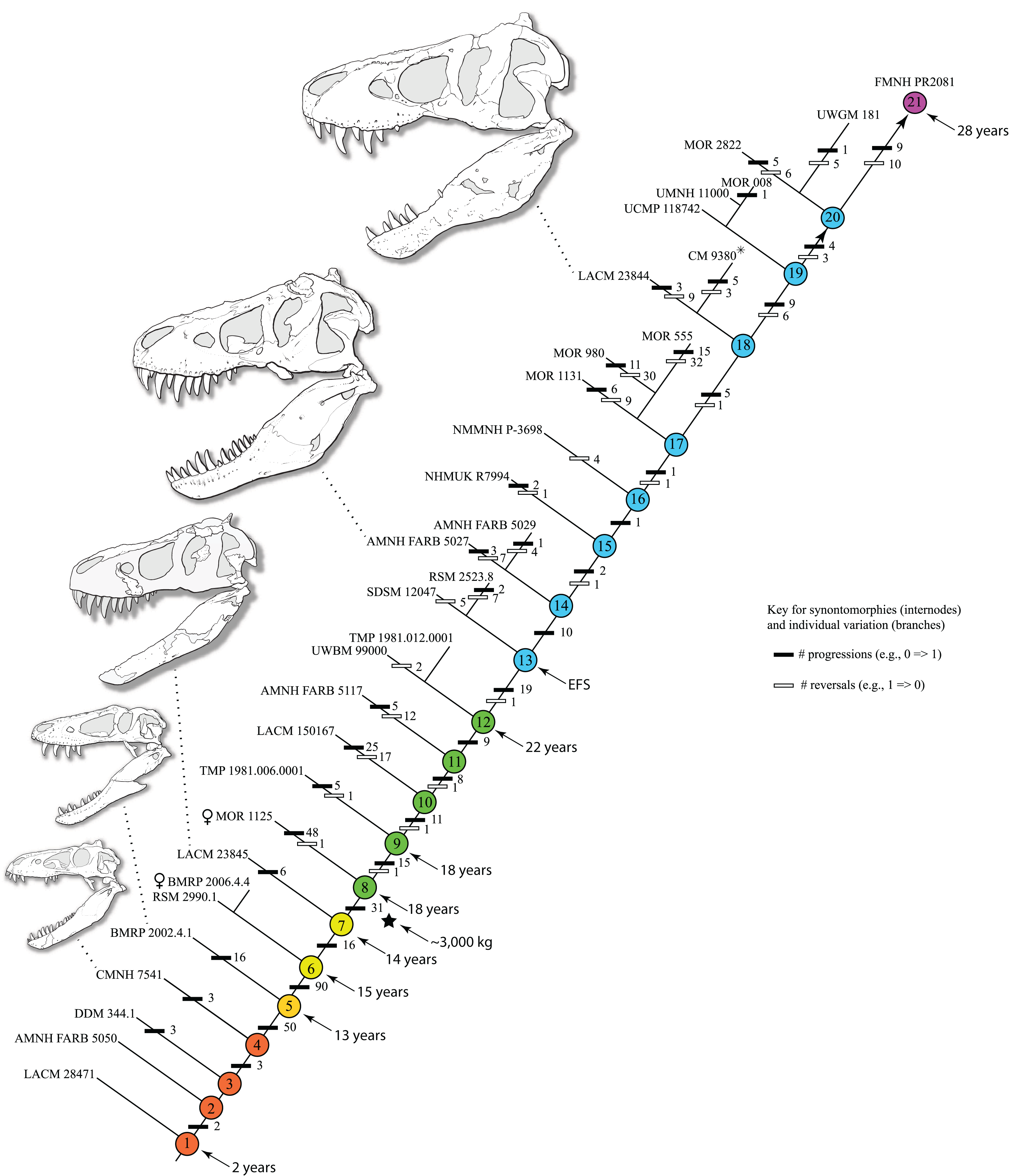 Ontogram of Tyrannosaurus rex showing growth stages, synontomorphies, individual variation, individual specimens, and chronological ages. Arrowhead points to the most mature specimen and the direction of the entire ontogenetic axis; that is, the least mature specimen is at the lower left whereas the most mature specimen is at the upper right. Asterisk indicates the type specimen. Individual variation occurs as progressions until young adulthood, where reversals are first seen. The maximum amount of change occurs at growth stages 5 and 6, which corresponds to the transition from a long and low skull and jaws to a deep and stout skull frame; this event, marked by the concentration of an extreme number of changes, is evidence that the ontogeny of T. rex is metamorphic (sensu Rose & Reiss, 1993). Each circle represents a numbered growth stage; these numbers do not correspond to those seen in Fig. 12. The star at growth stage 7 marks the ~3,000 kg threshold that separates T. rex from its closest, but smaller, relatives. Color key: red, small juveniles; orange, large juveniles; yellow, subadults; green, young adults; blue, adults; violet, senescent adults. See text for definition of growth categories. Skulls are to scale; AMNH FARB 5027 is scaled to a premaxilla to quadrate length of 1.3 m.